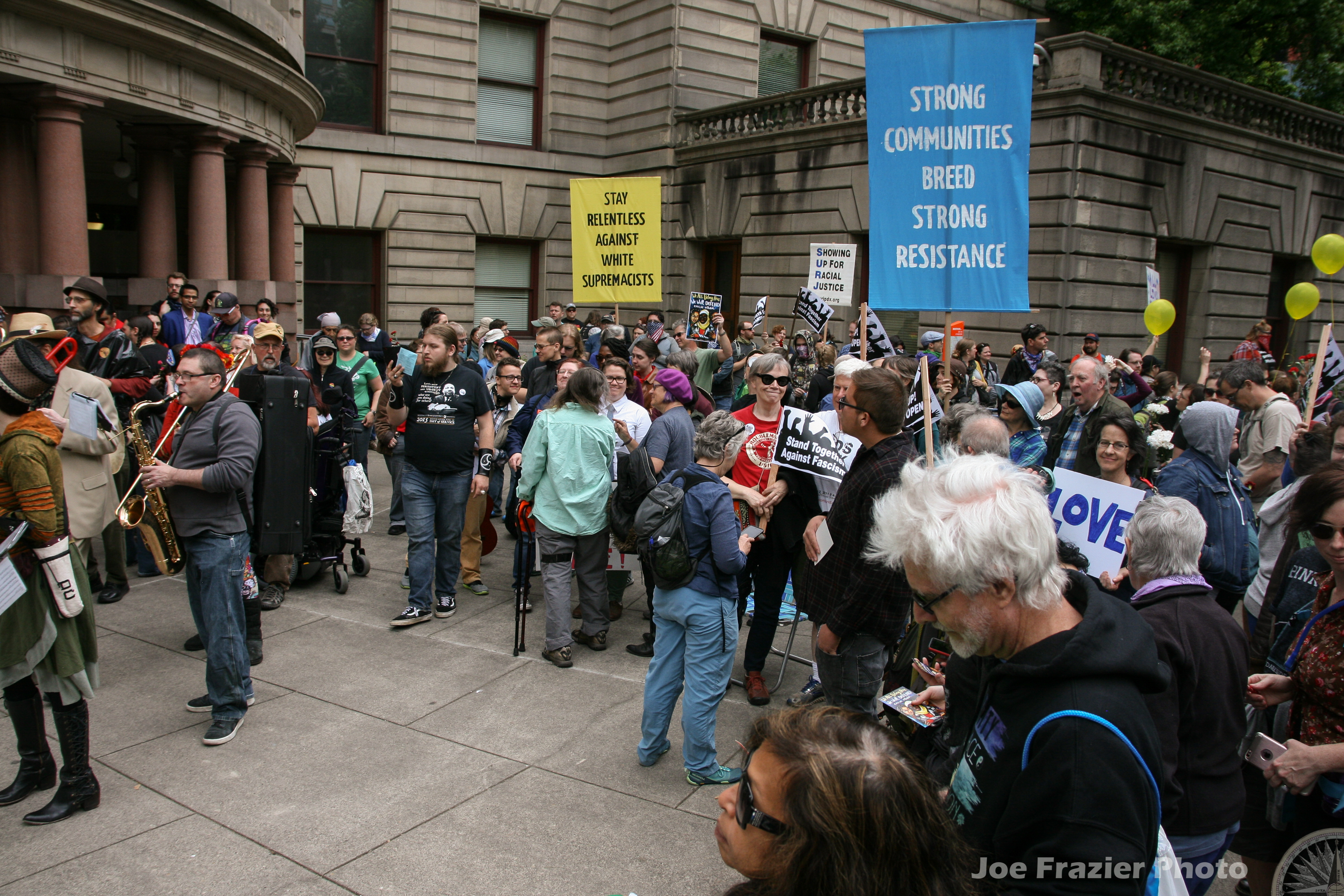 Strong communities breed strong resistance.